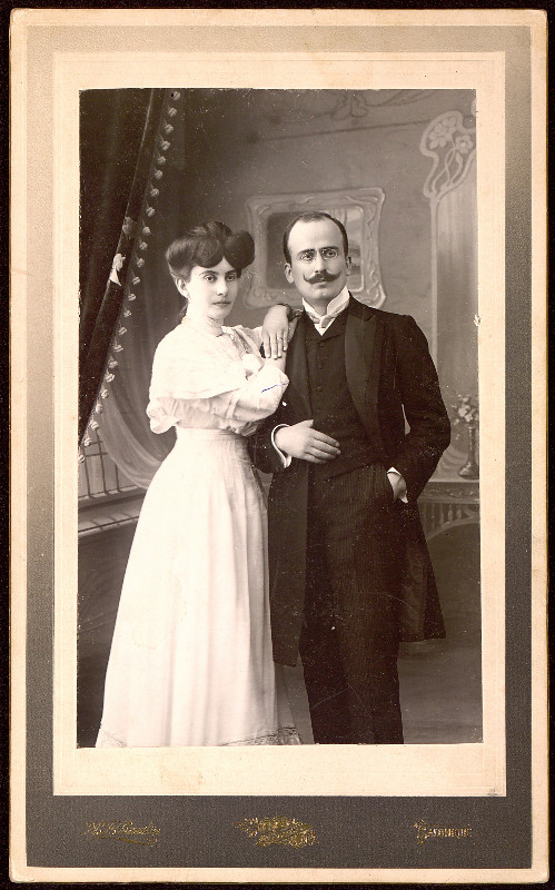 Yadviga Doreva and Pancho Dorev in Thessaloniki, 1908